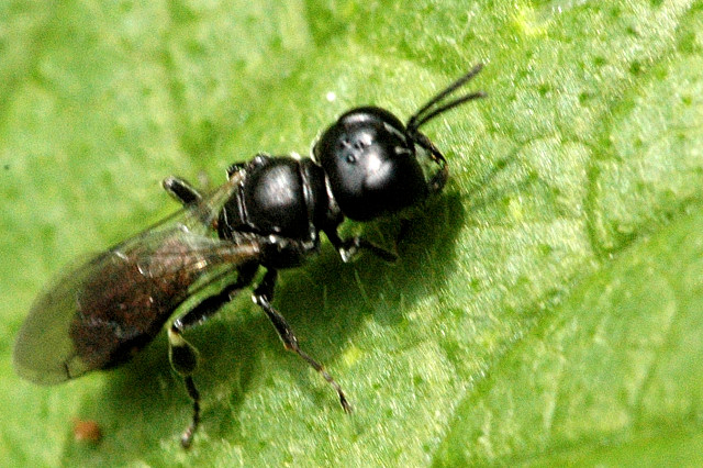 Crossocerus podagricus from Commanster, Belgian High Ardennes .